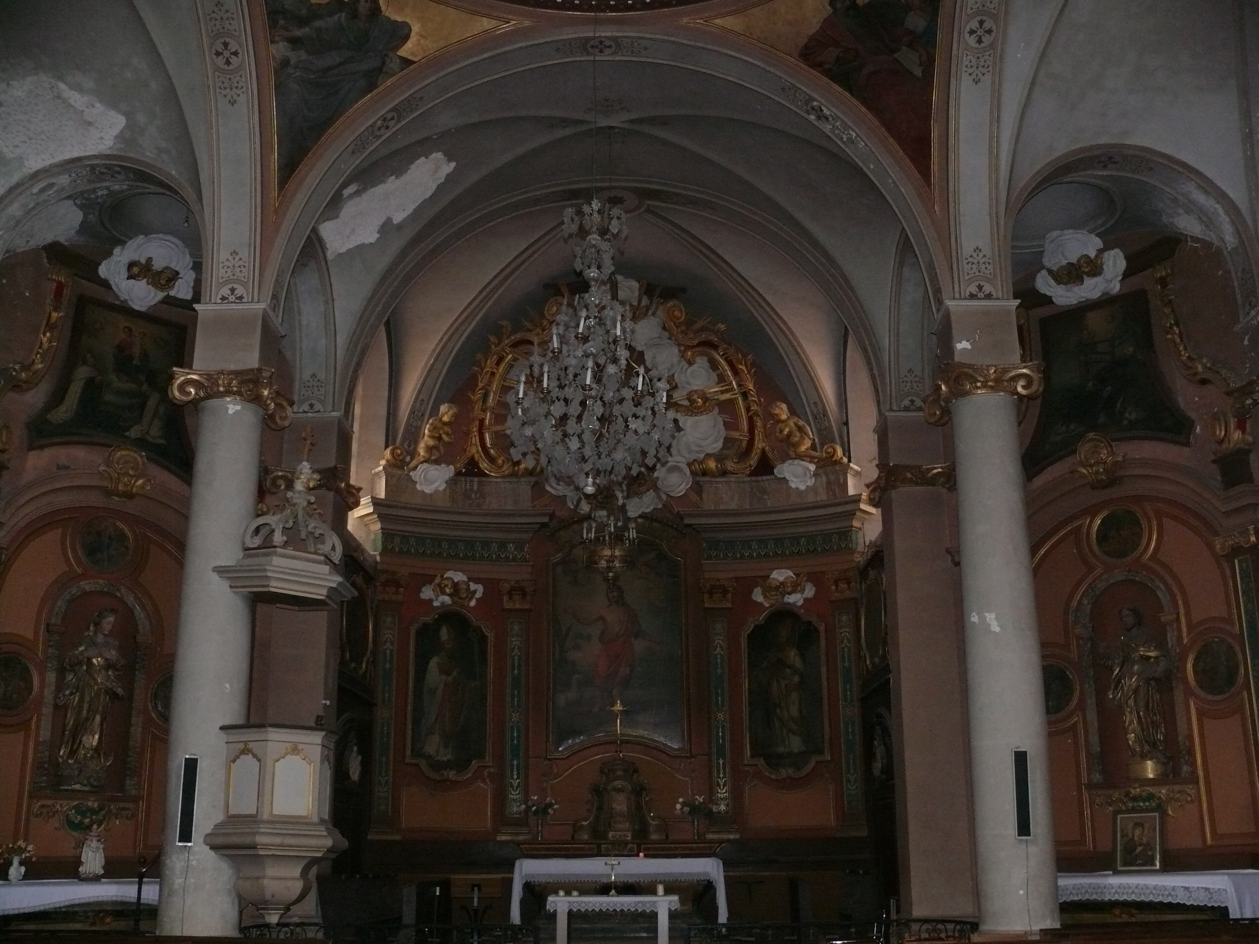 Interior of the church of Traves (Haute-Saône, Franche-Comté).